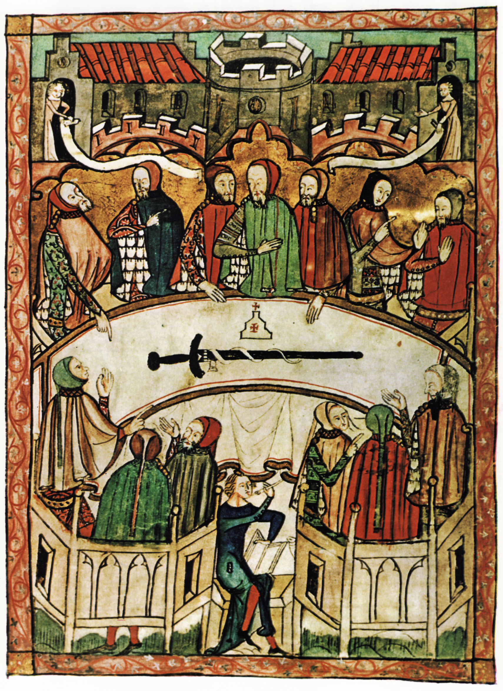 Painting of the League of the Holy Court.